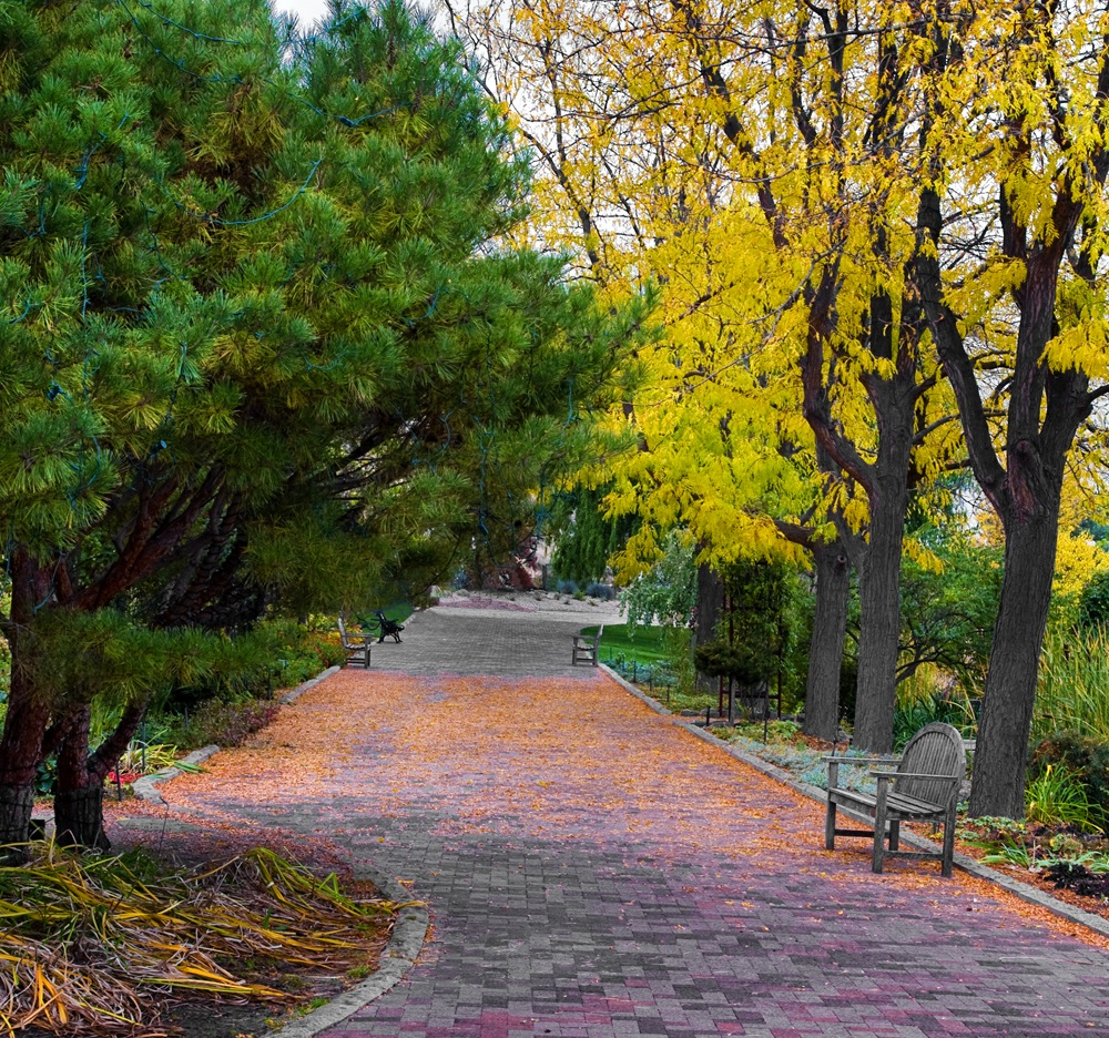 A park bench at the Idaho Botanical Garden with leaves falling around it.